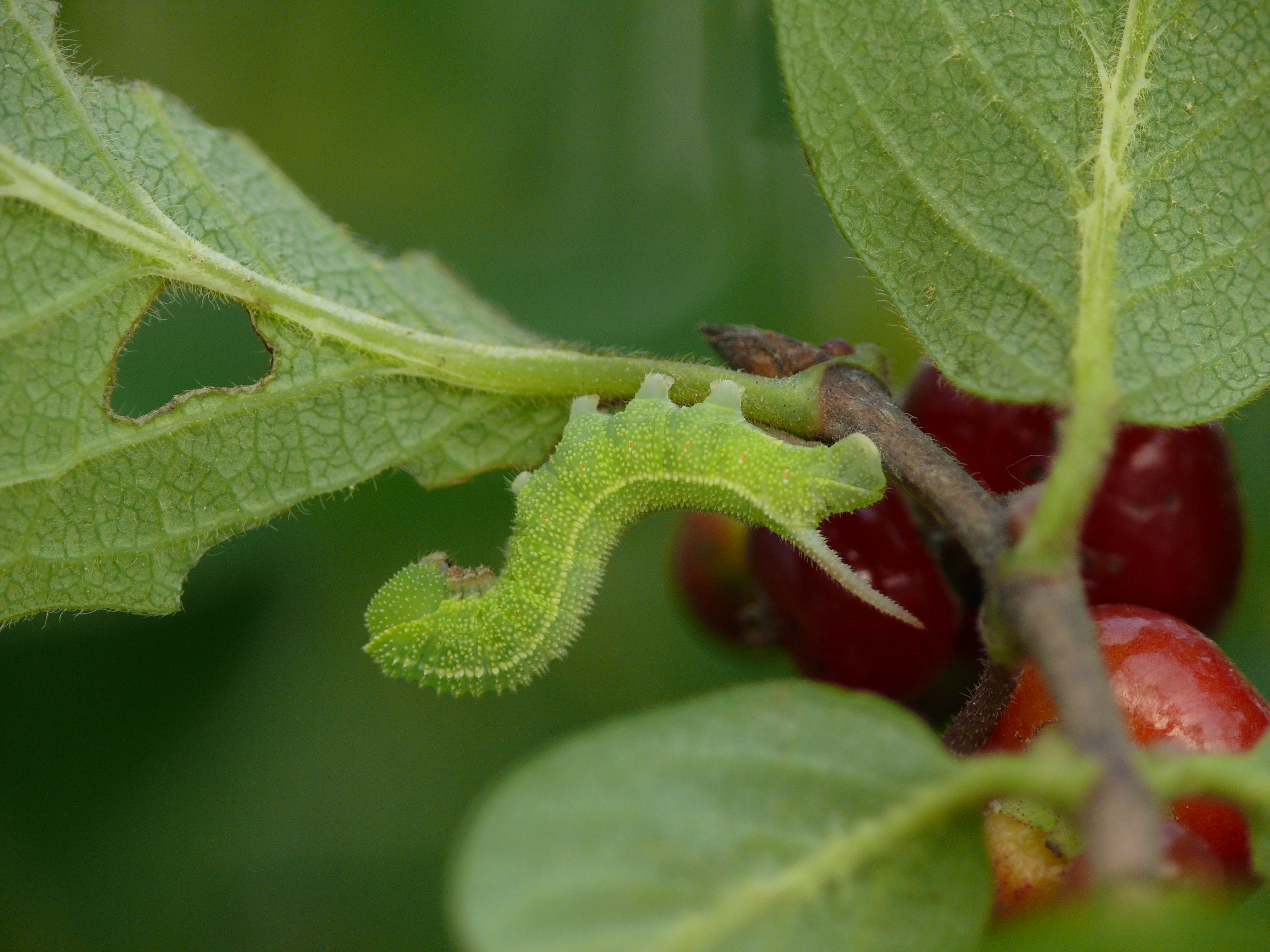 Caterpillar of the Broad-bordered Bee Hawk-moth (Hemaris fuciformis), urban hinterland of Munich, Germany